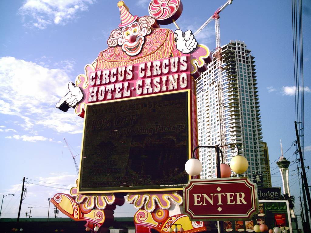 Circus Circus Las Vegas sign